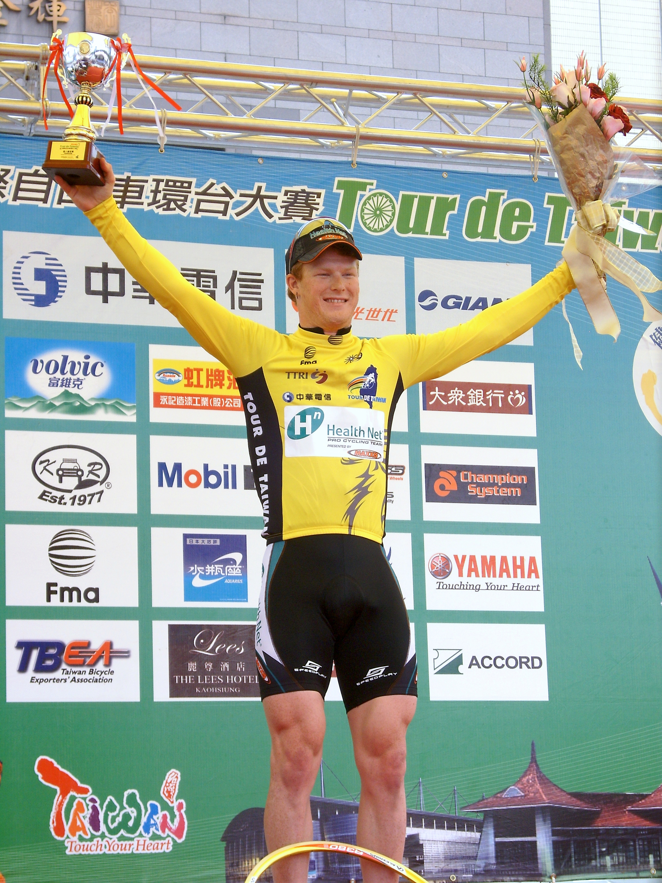 2008 Tour de Taiwan - Stage 8: John Murphy won the Overall Champion in this series.